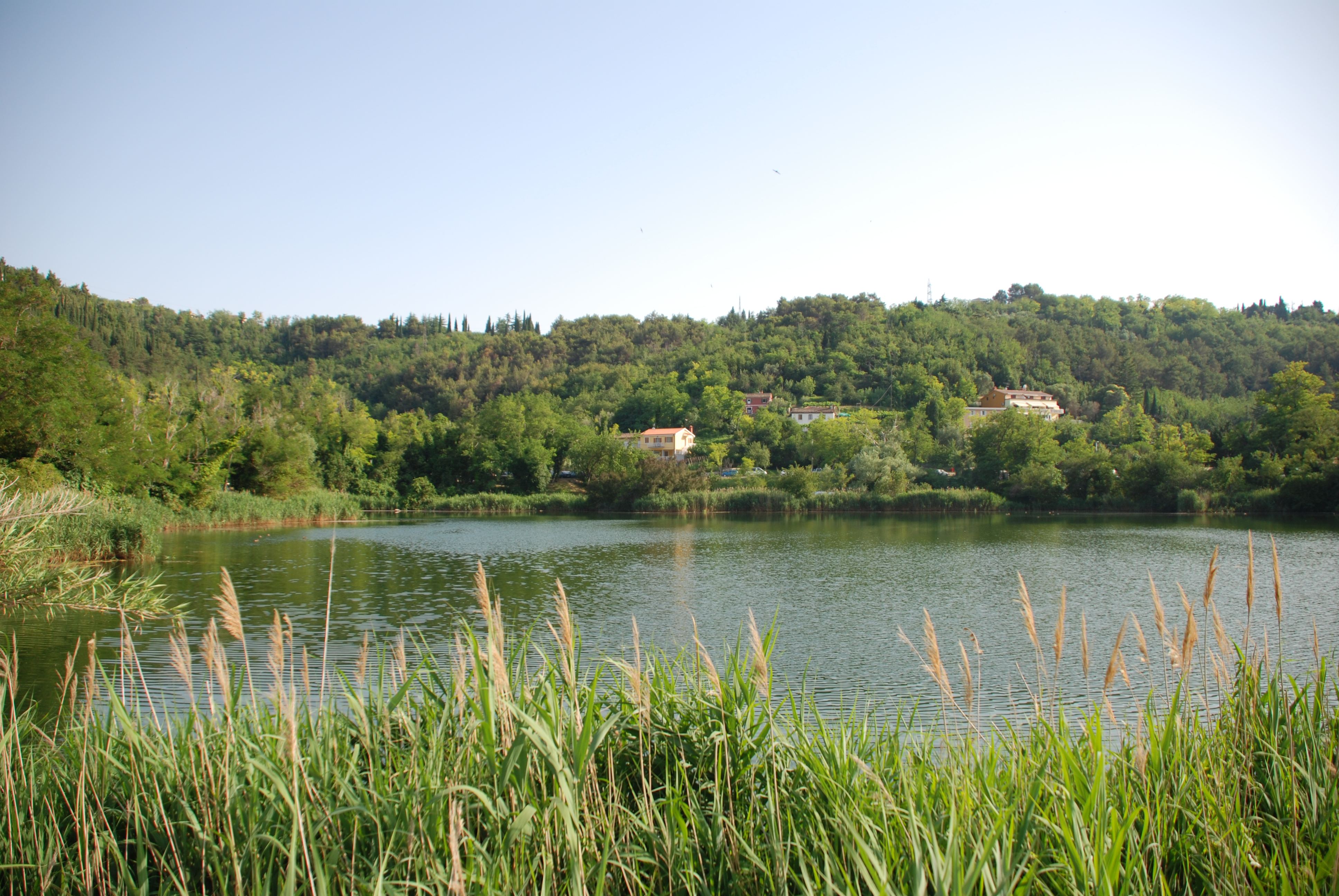 The Great Lake in Fiesa, a street of Portorož. Municipality of Piran, Slovenia.